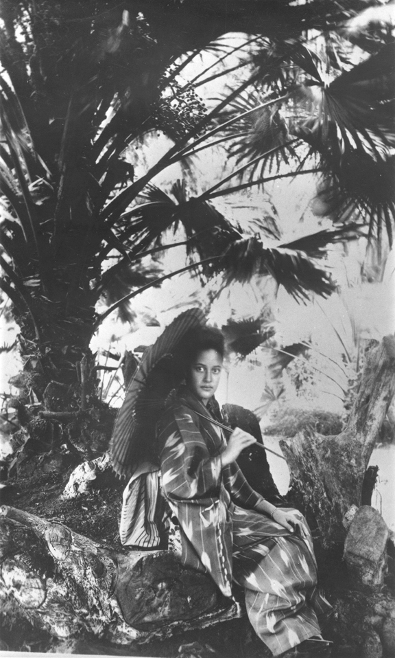 Princess Kaiulani in kimono and holding a parasol